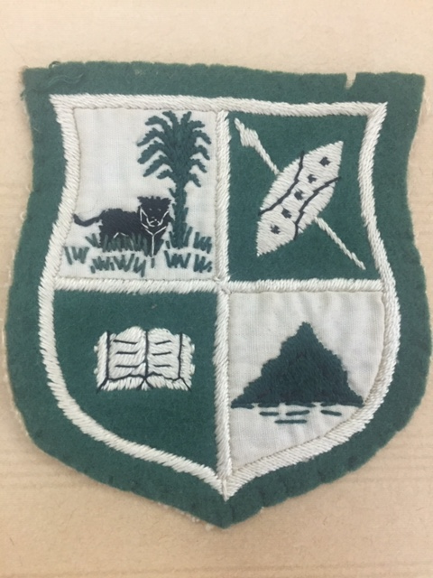 The Arusha School badge.